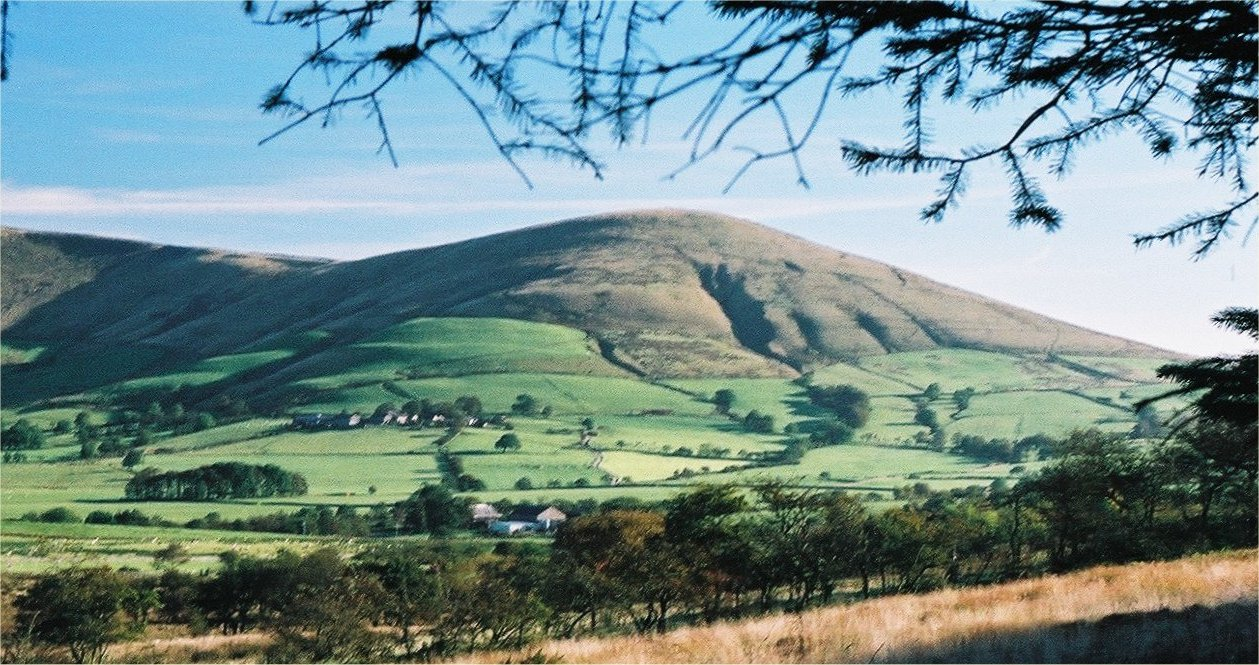 Parlick, in Lancashire, England. Photographed from Beacon Fell.